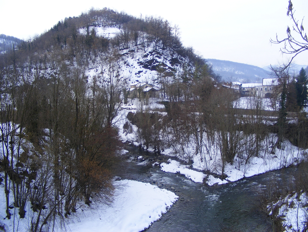 Confluence Corsaglia-Casotto near Torre Mondovì (CN, Italy)